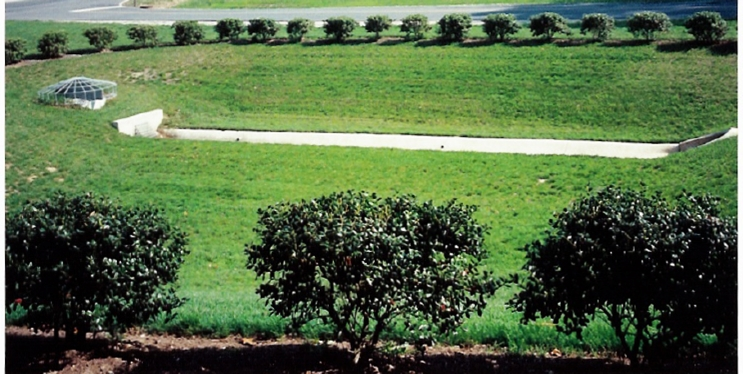 View of a stormwater detention pond, also called a dry pond